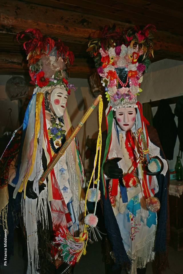 pic of a traditional mask